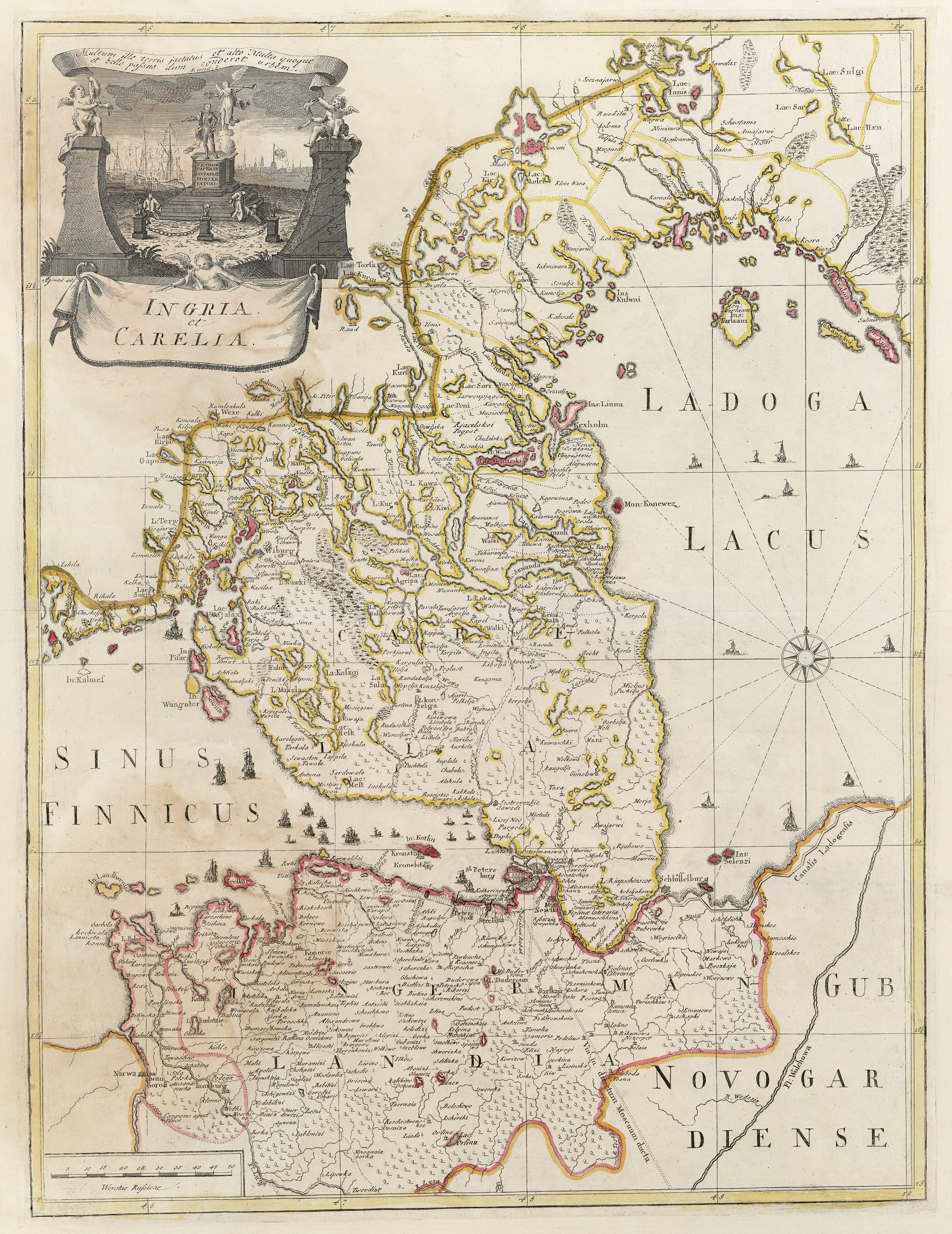 Map of Ingria and Karelia in 1740s. In Latin.